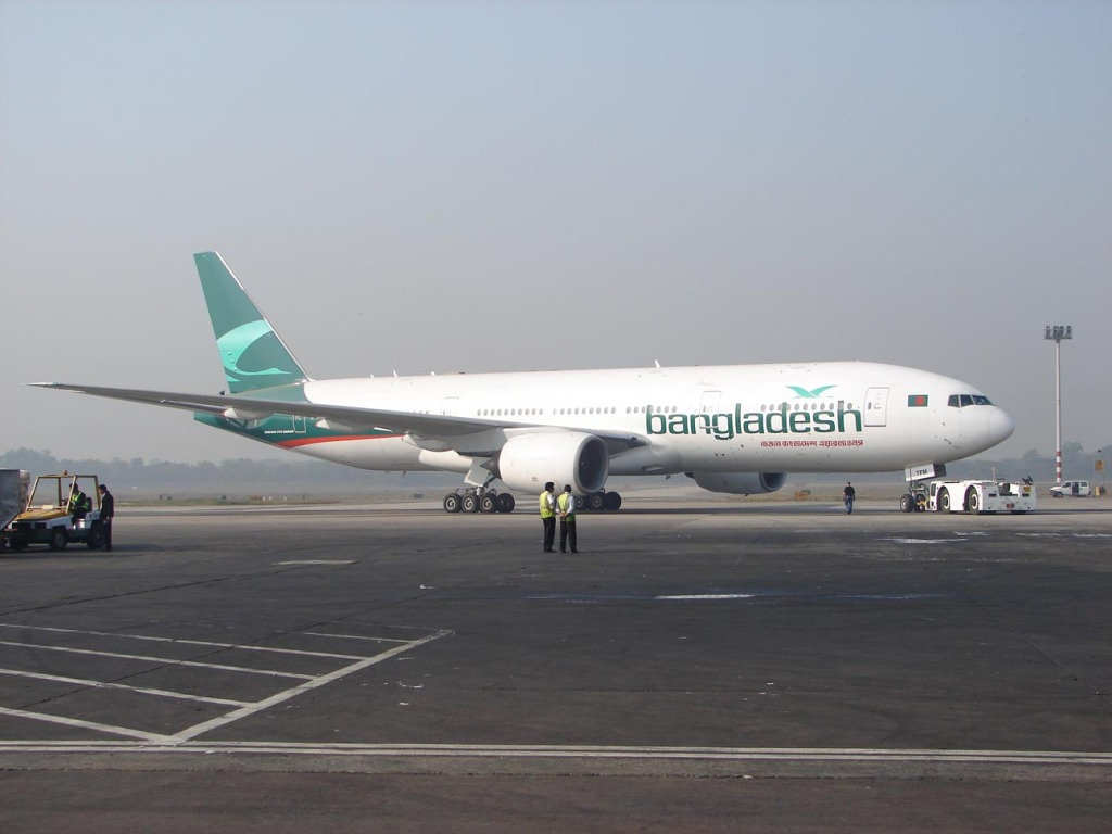 Biman's Boeing 777-200ER being pushed back for it's departure to London Heathrow on it's maiden commercial flight.